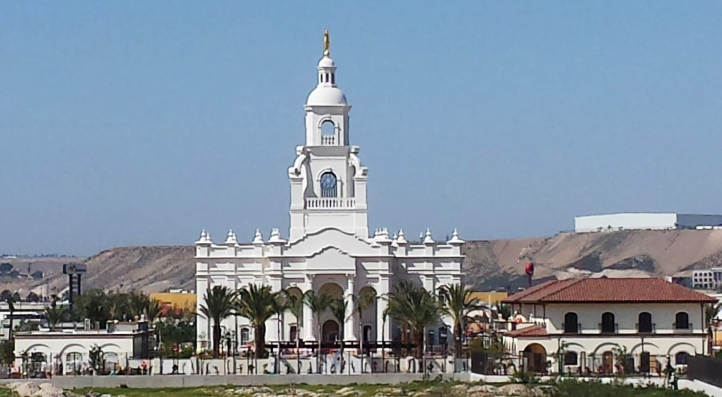 Tijuana Mexico Temple